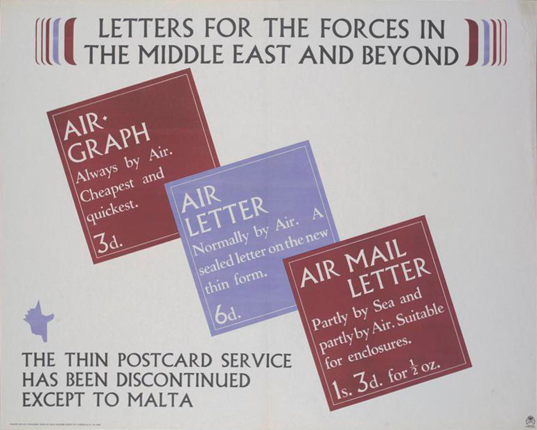 Letters for the Forces in the Middle East and Beyond whole: the title and subtitle are placed at the top and bottom. Other text is integrated into the design. image: three overlapping coloured squares laid diagonally from top left to bottom right. Hand symbol lower left pointing to text subtitle. text: LETTERS FOR THE FORCES IN THE MIDDLE EAST AND BEYOND AIR-GRAPH Always by Air. Cheapest and quickest. 3d. AIR LETTER Normally by Air. A sealed letter on the new thin form. 6d. AIR MAIL LETTER Partly by Sea and partly by Air. Suitable for enclosures. 1s. 3d. for 1/2oz. THE THIN POSTCARD SERVICE HAS BEEN DISCONTINUED EXCEPT TO MALTA PRINTED FOR H.M. STATIONERY OFFICE BY MULTI MACHINE PLATES LTD. LONDON E.C.4. 51-3110 GPO PRD 281